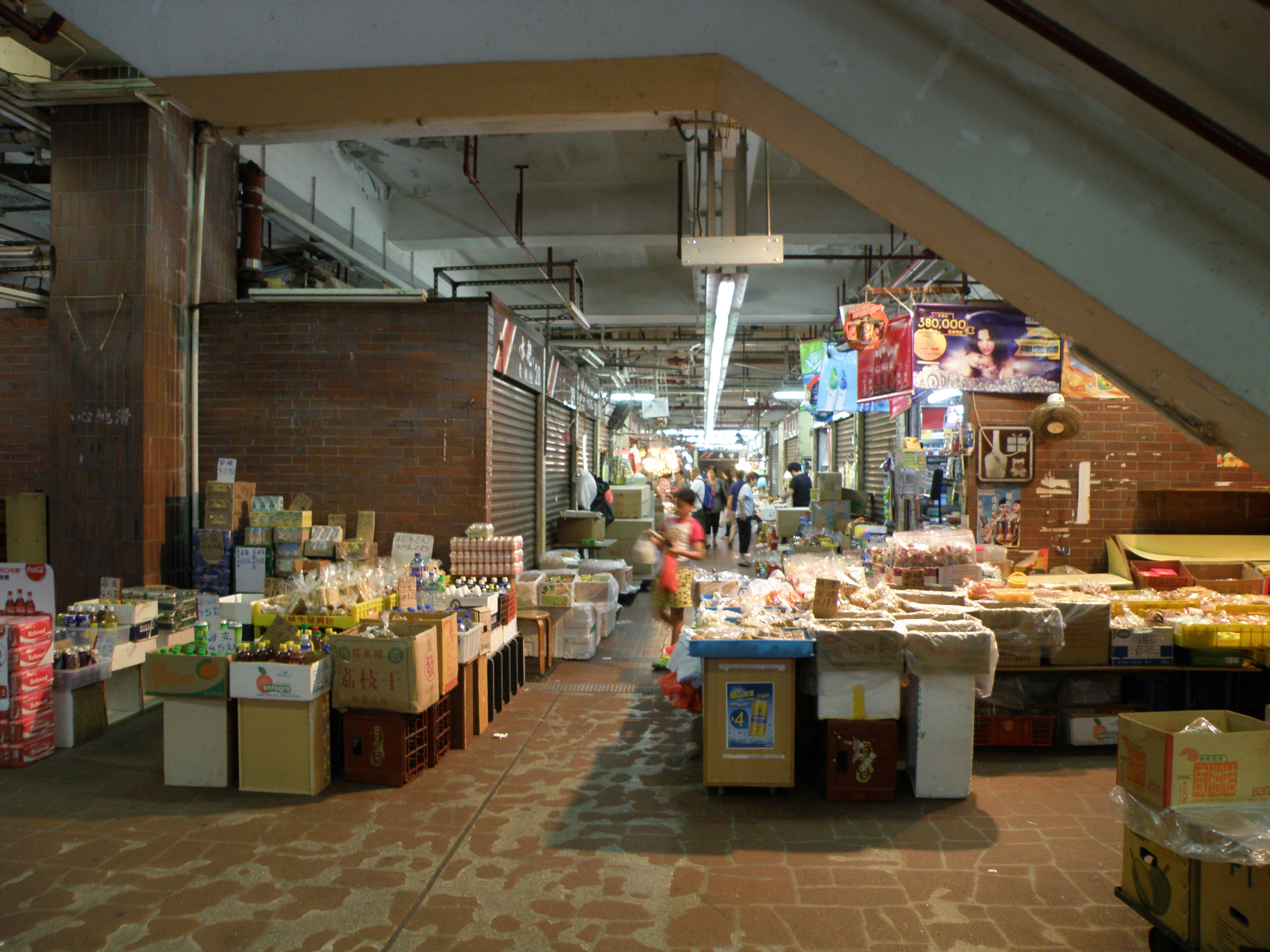 Lei Tung Market in Ap Lei Chau, Hong Kong.